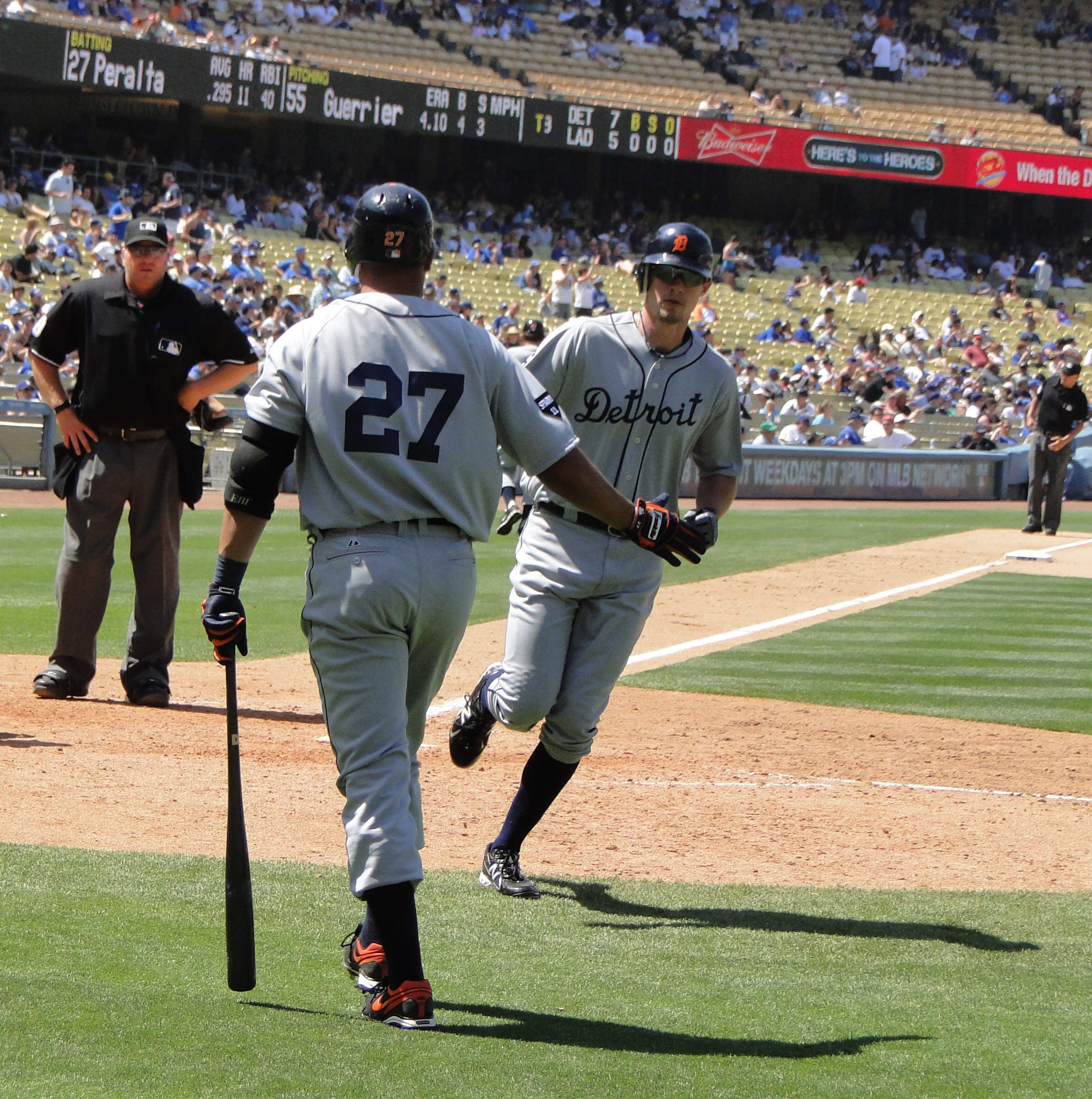 Jhonny Peralta greets Don Kelly after Kelly hits a home run off Matt Guerrier at Dodger Stadium. Home plate umpire Brian Runge looks on.